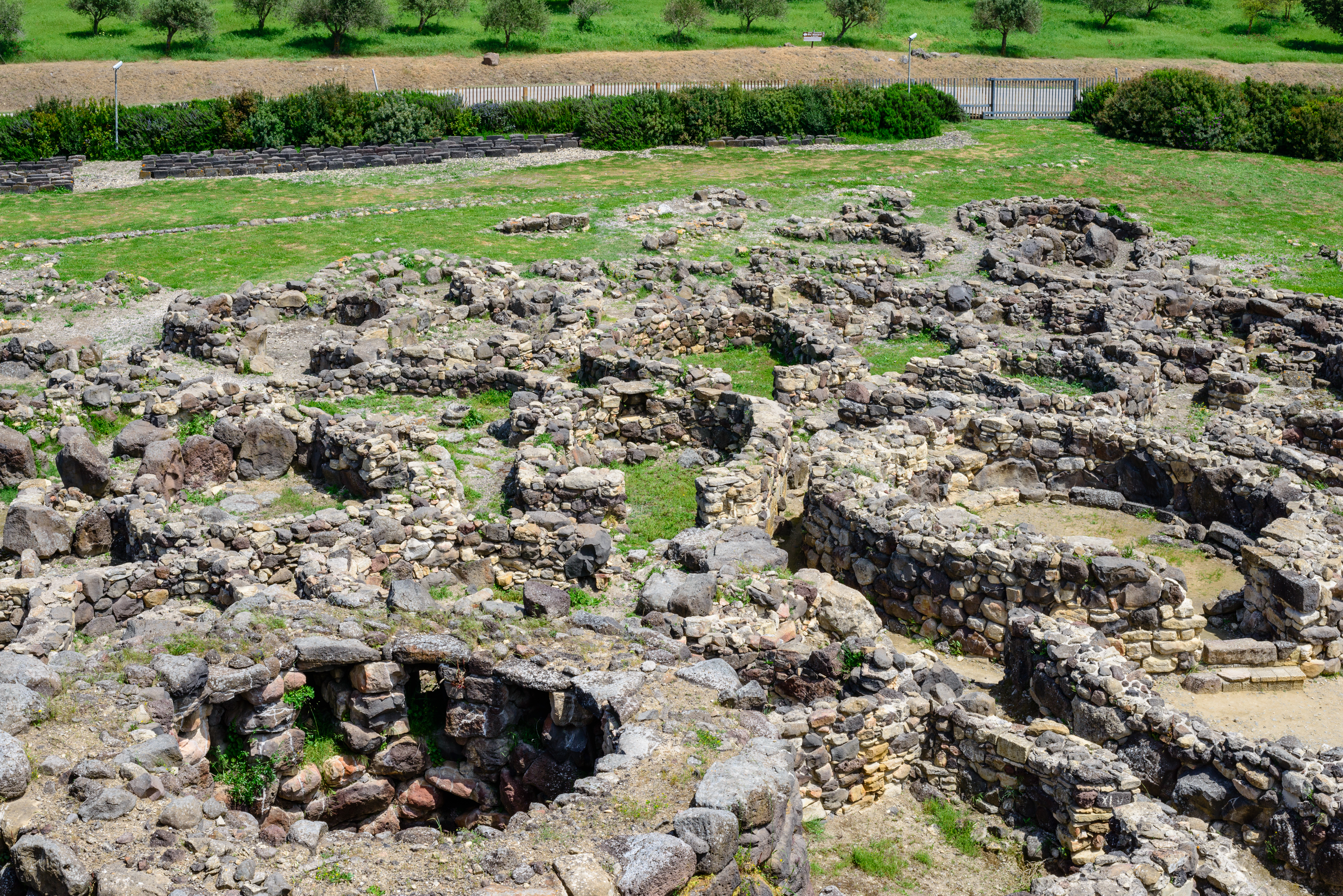 View of the village from the central tower. Su Nuraxi is a nuragic archaeological site in Barumini, Sardinia, Italy. The complex is centred around a three-storey tower built around the 16th century BC.